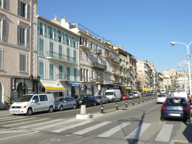 Cannes, France - Quai Saint-Pierre